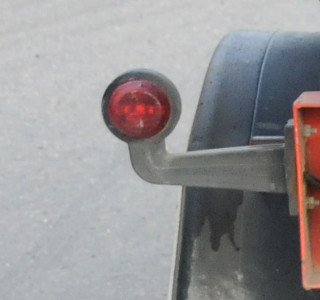 Clearance lamp on a heavy duty trailer.